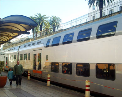 Picture of the Train of Morocco in the Rabat Main Station.